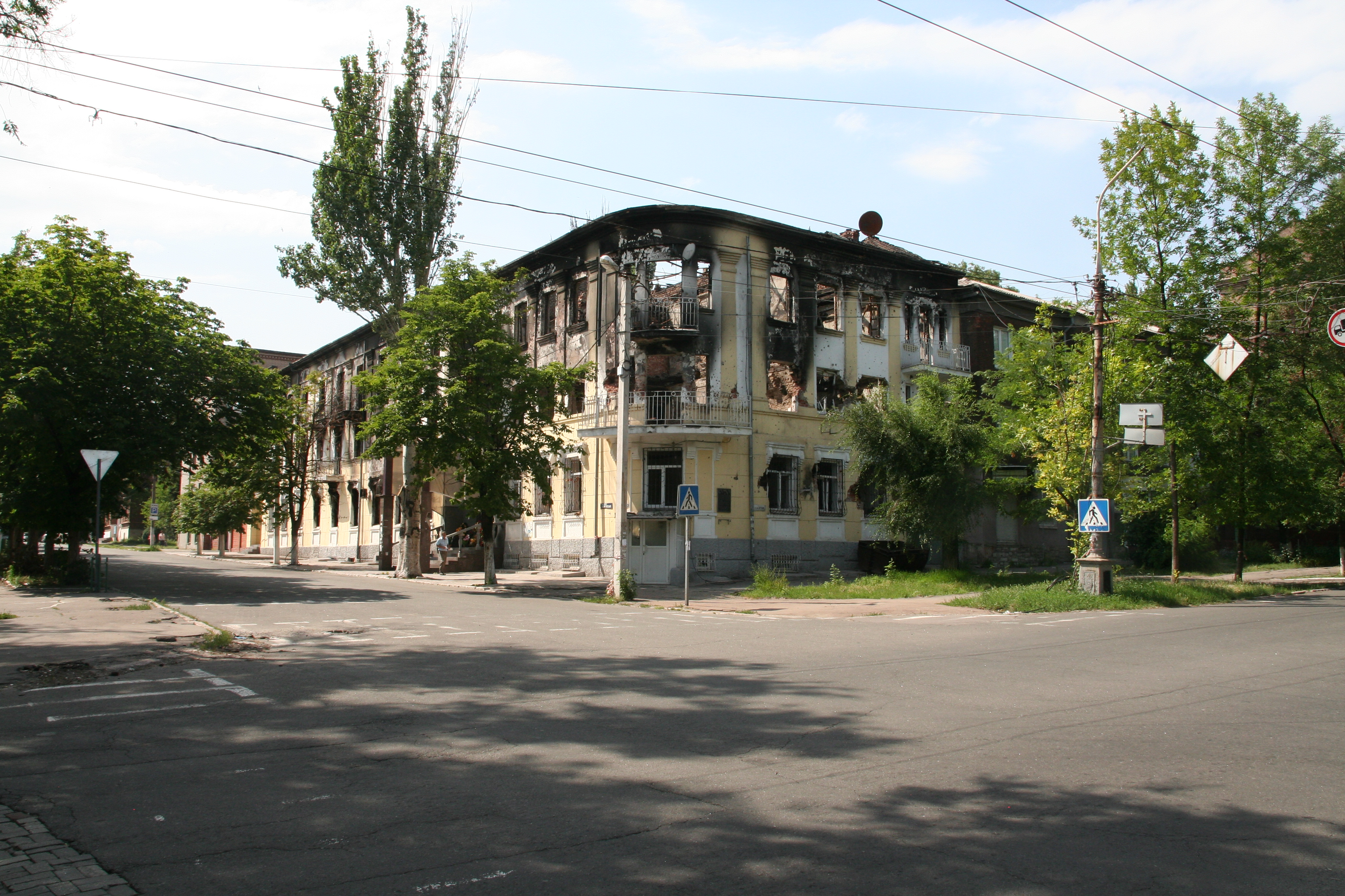 A police station in Mariupol, damaged in fighting in May 2014.